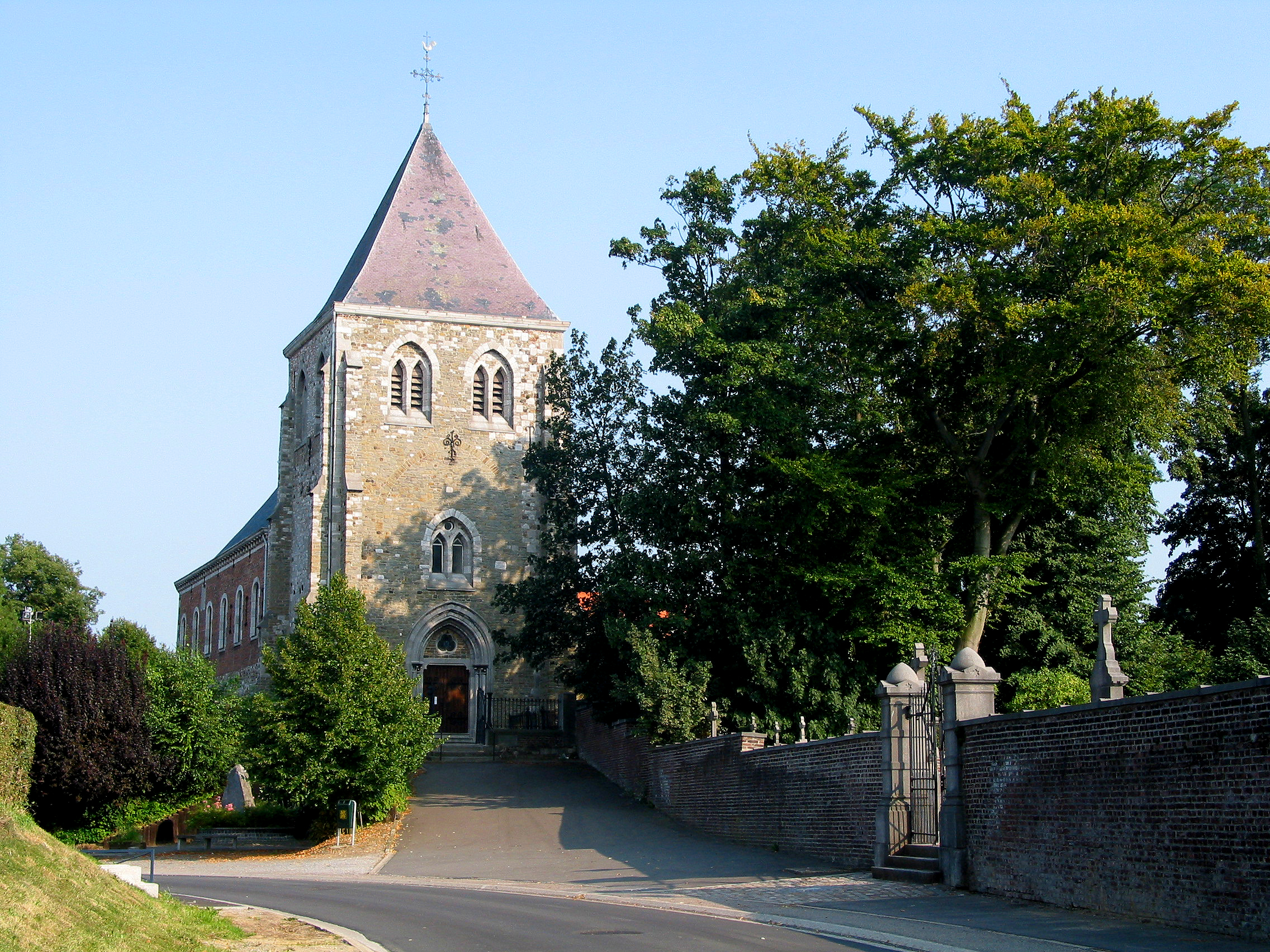 Fexhe-le-Haut-Clocher (Belgium), the St. Martin's church (XII/XVIIth centuries).